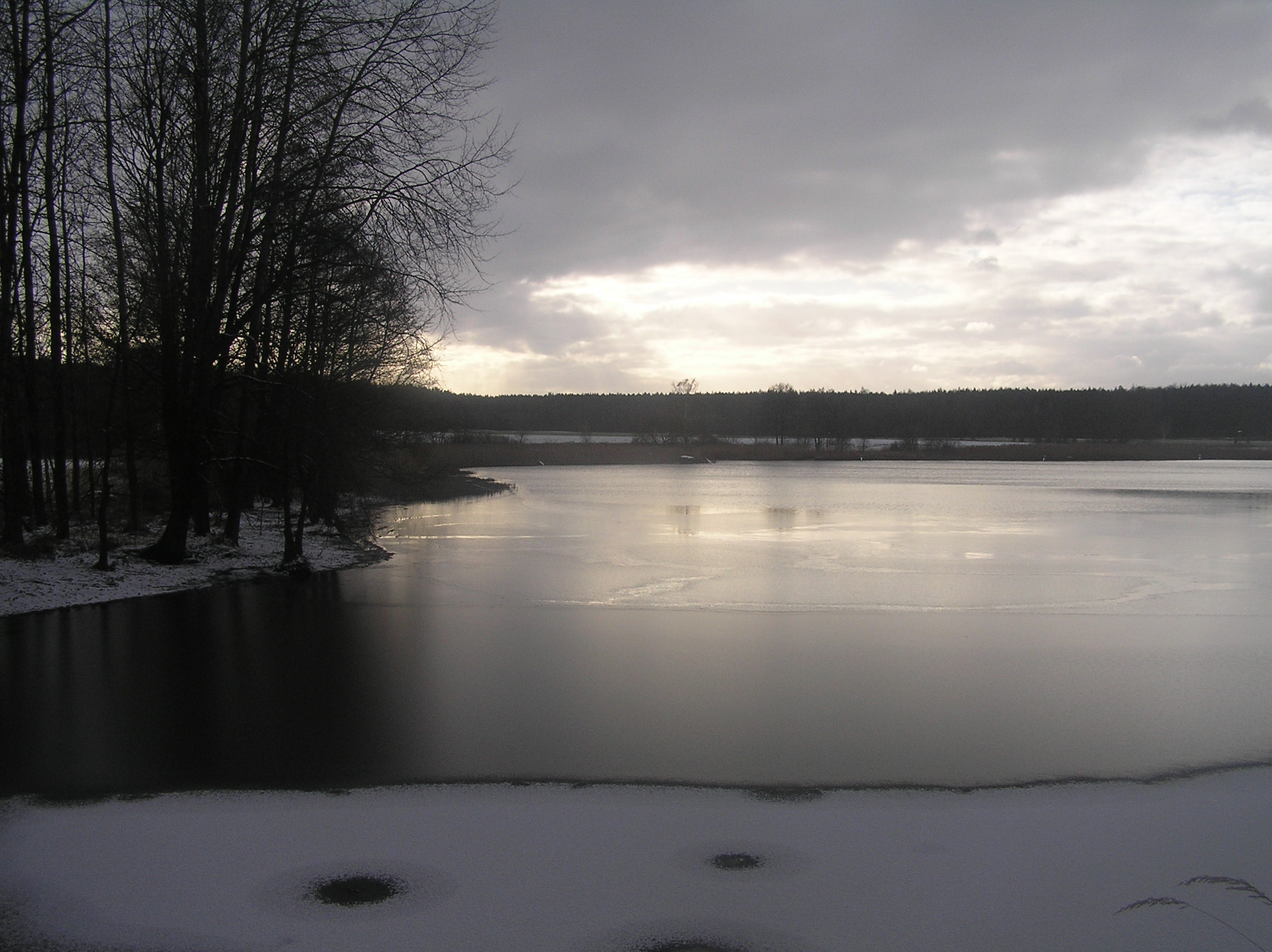 The pond Svatba near the settlement Prochody, Pardubice Region, Czech Republic